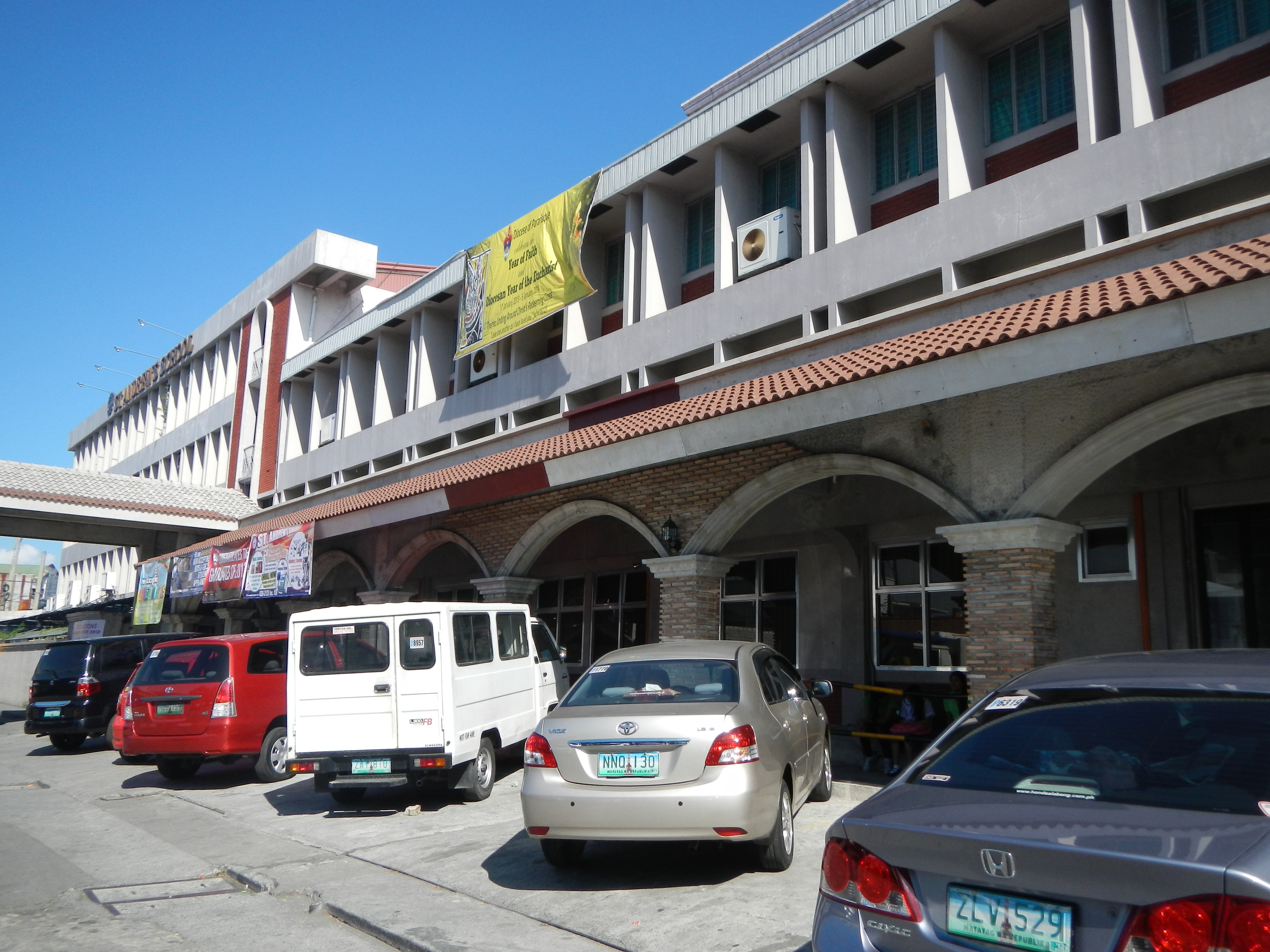 St. Andrew's School (Parañaque) is [1] a private Catholic parochial school of the Cathedral Parish of St. Andrew and managed by the Diocese of Parañaque. It is located in Parañaque City, Metro Manila, Philippines. The school offers preschool, primary, secondary and alternative education.